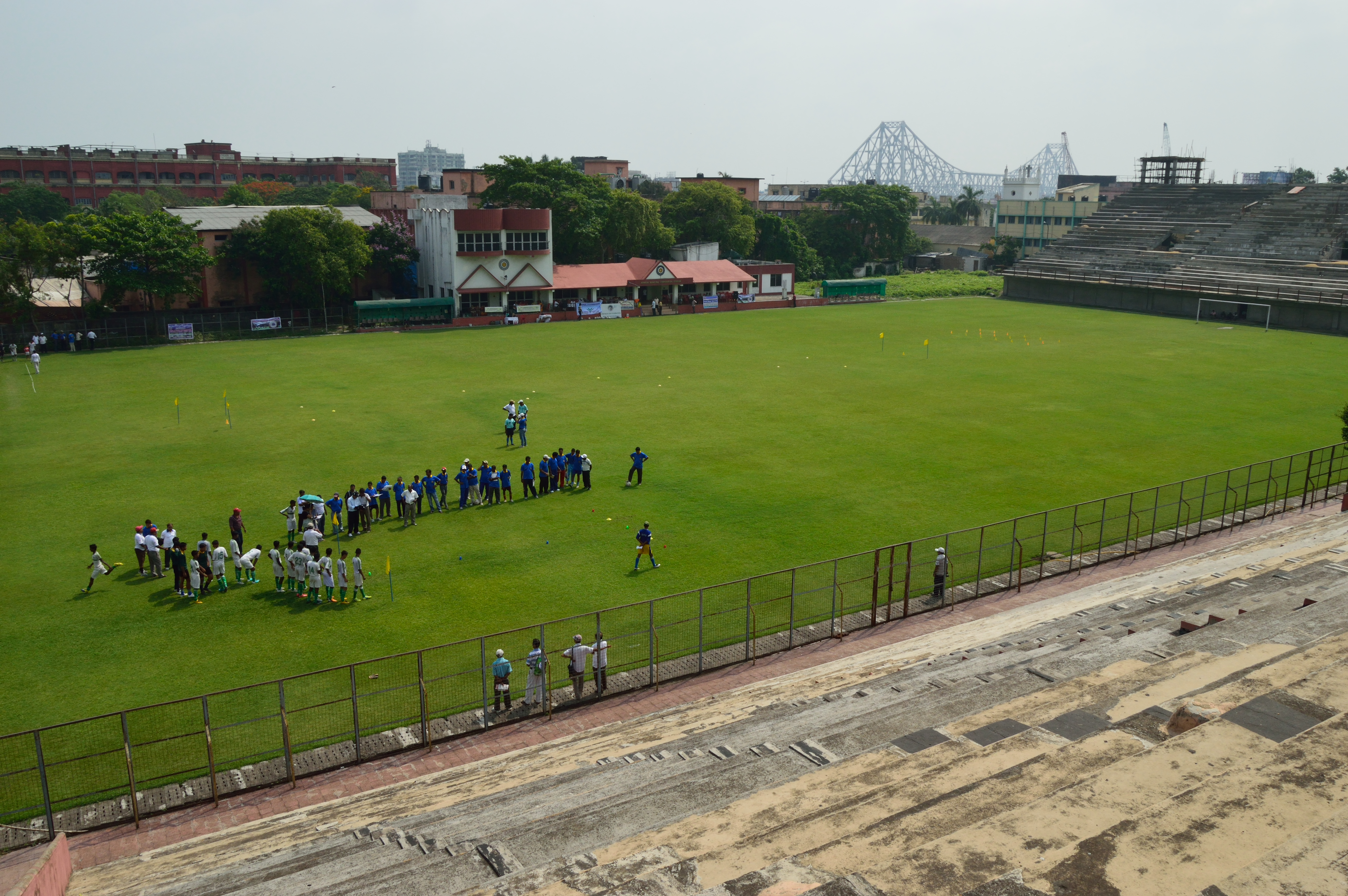 Photographed in greater Kolkata.